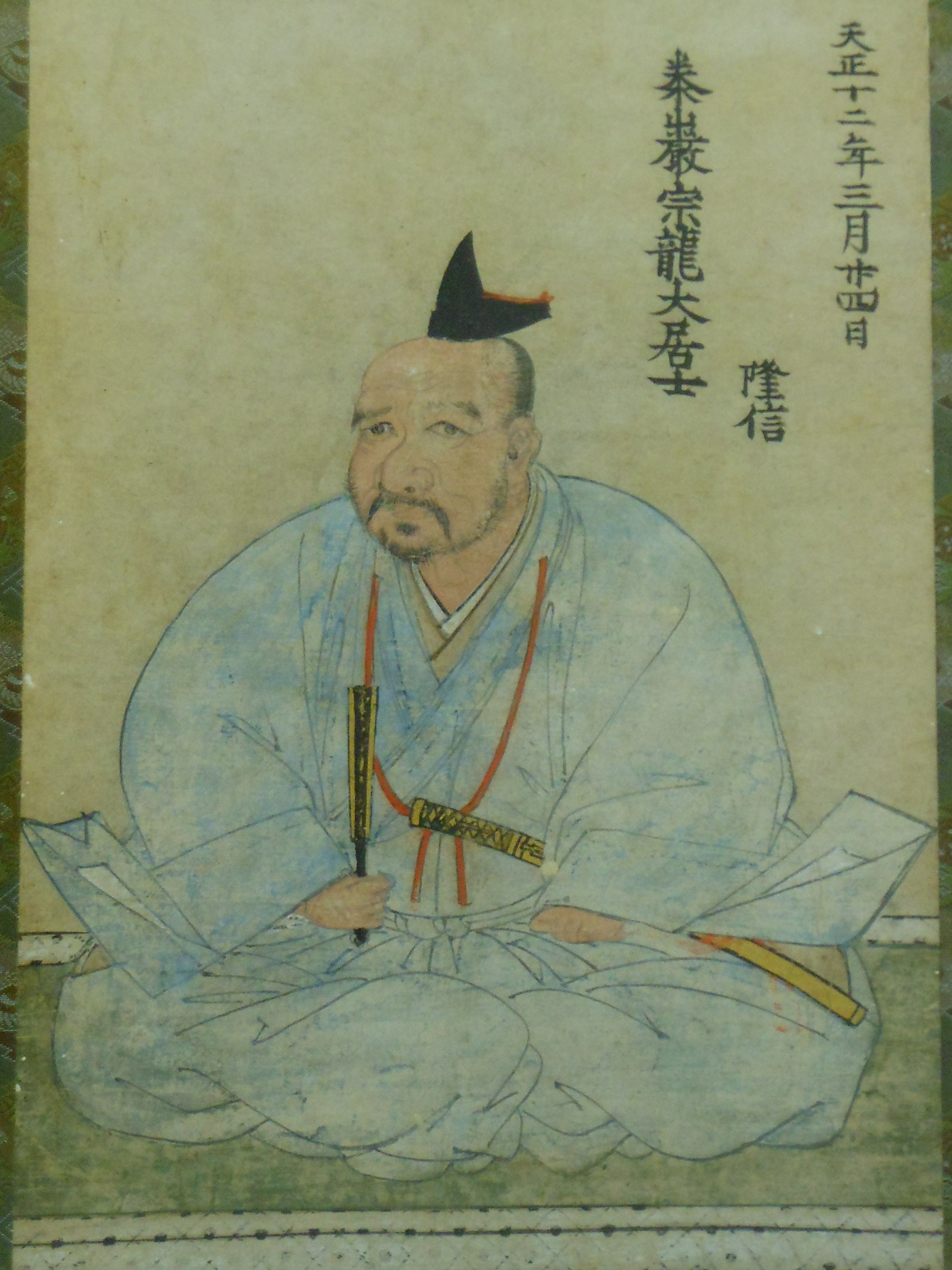 a portrait of Ryūzōji Takanobu. It displays in Saga Prefectural Museum.